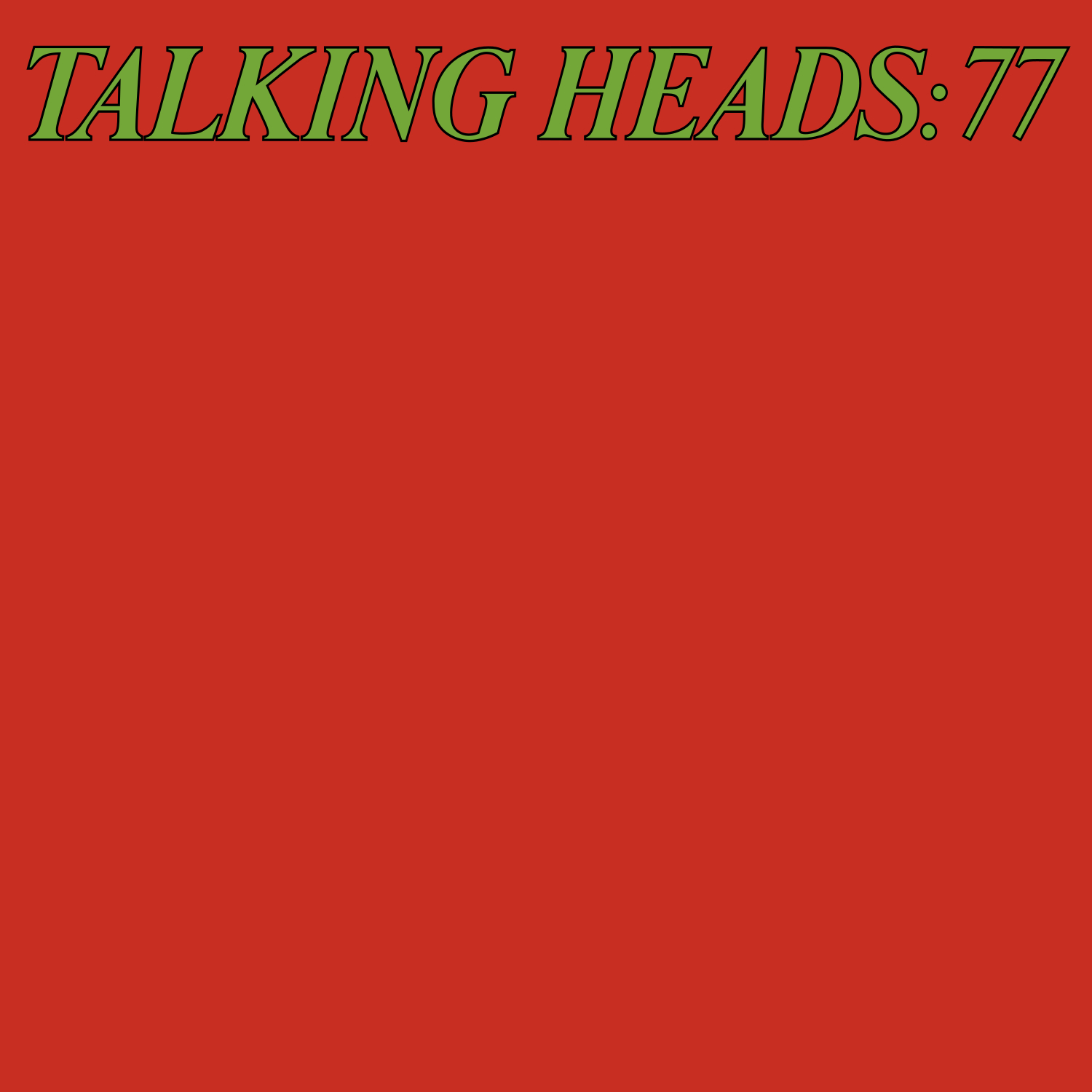 Cover of the Talking Heads album Talking Heads: 77.